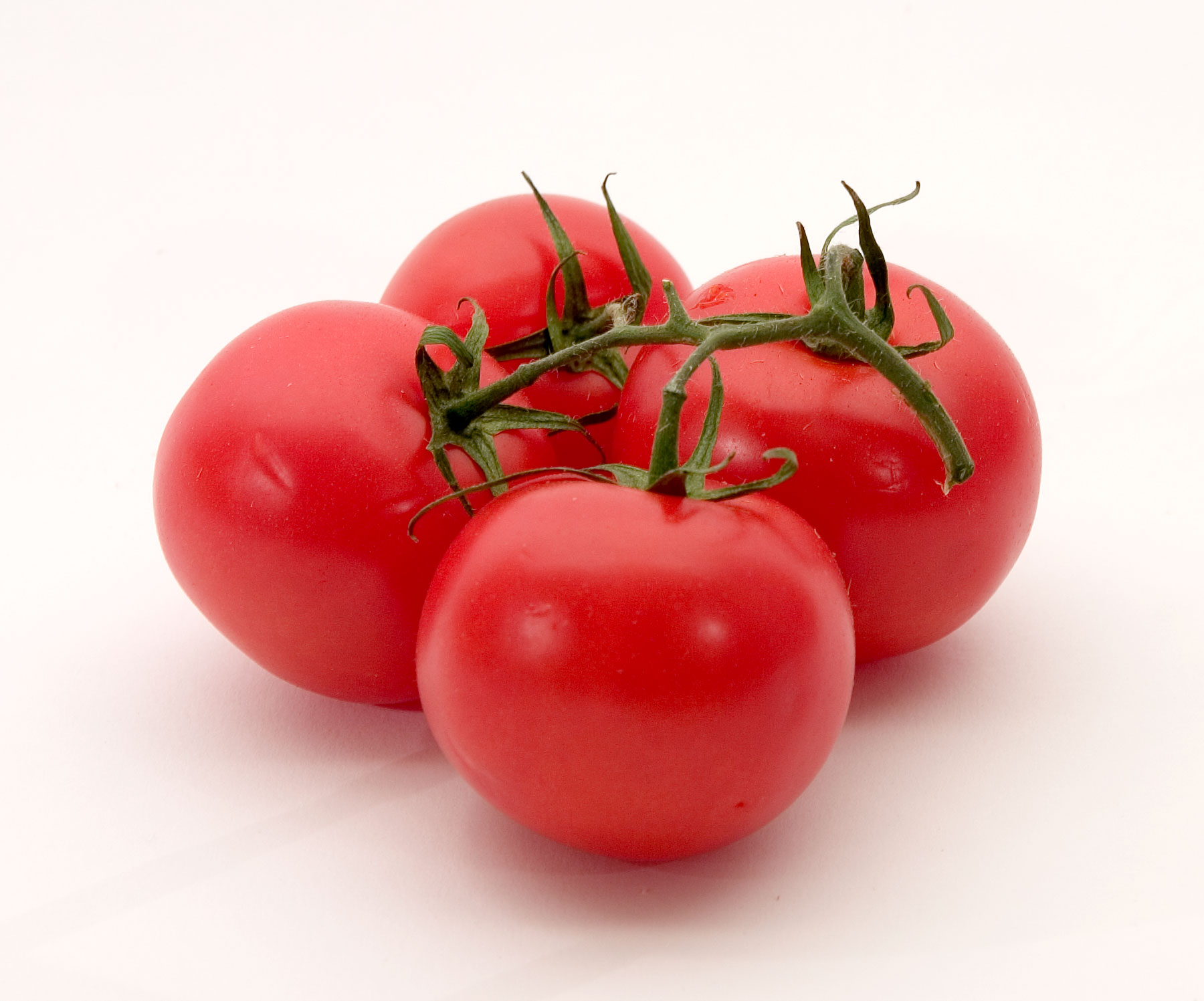 Grape tomatoes.